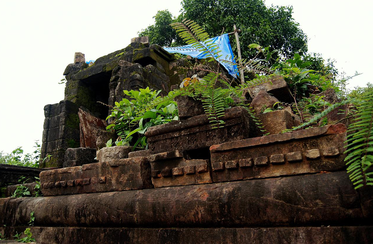 Ruins of old jain style temple at Arimbra mala of Morayur Village. Hindu worship has started recently